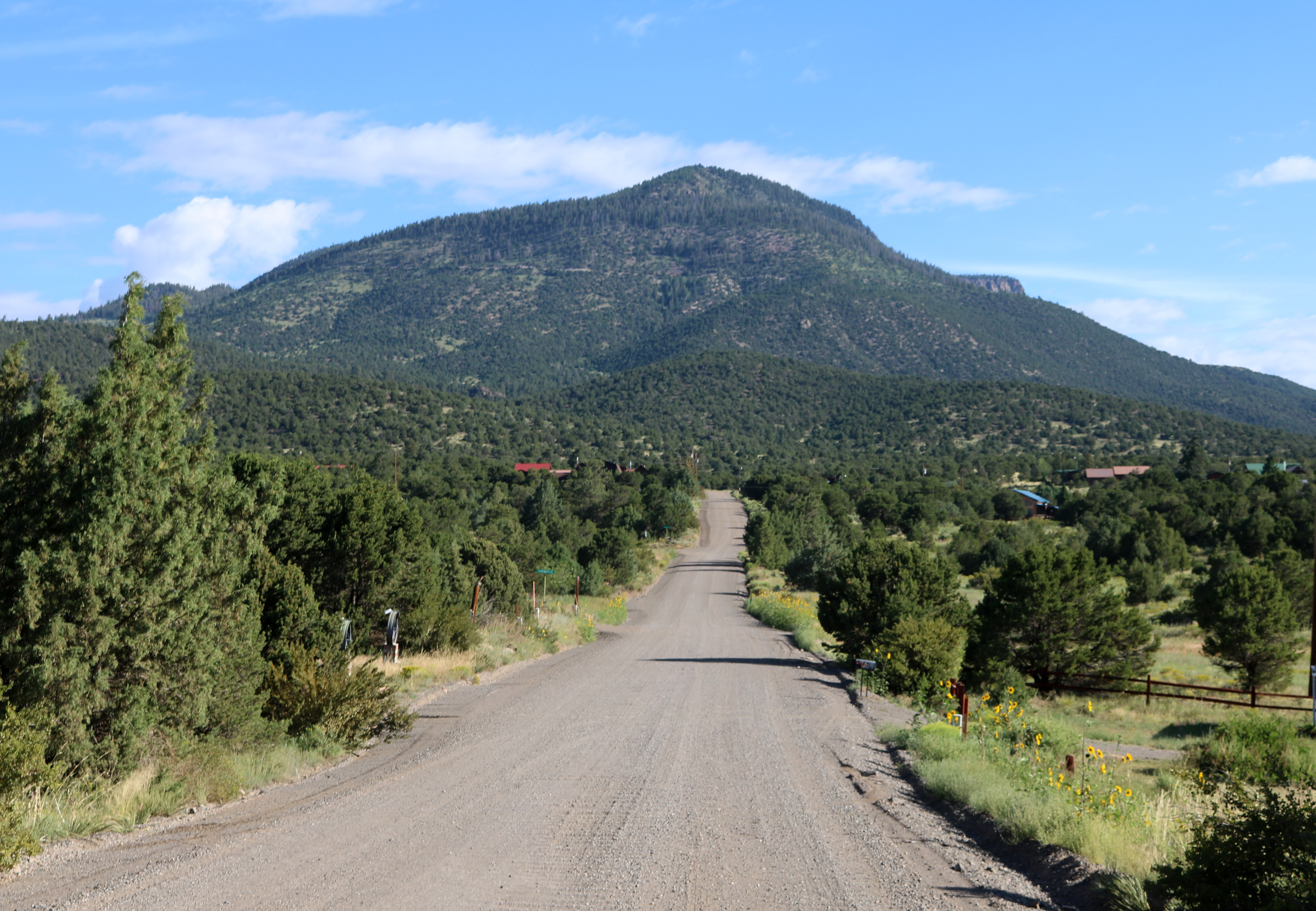 Looking north along Arapaho Road in Alpine, Colorado. The mountain in the picture, apparently unnamed, has an elevation of 8,837 feet (2,694 meters).